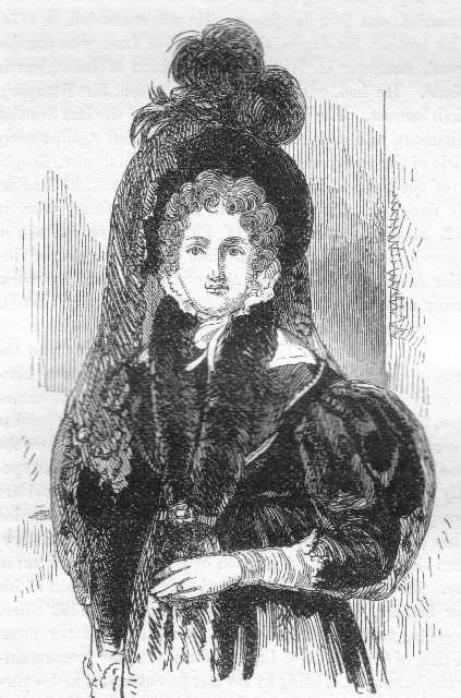 Janet Colquhoun or Janet Sinclair or Lady Colquhoun (17 April, 1781 – 21 October, 1846) was a British religous writer